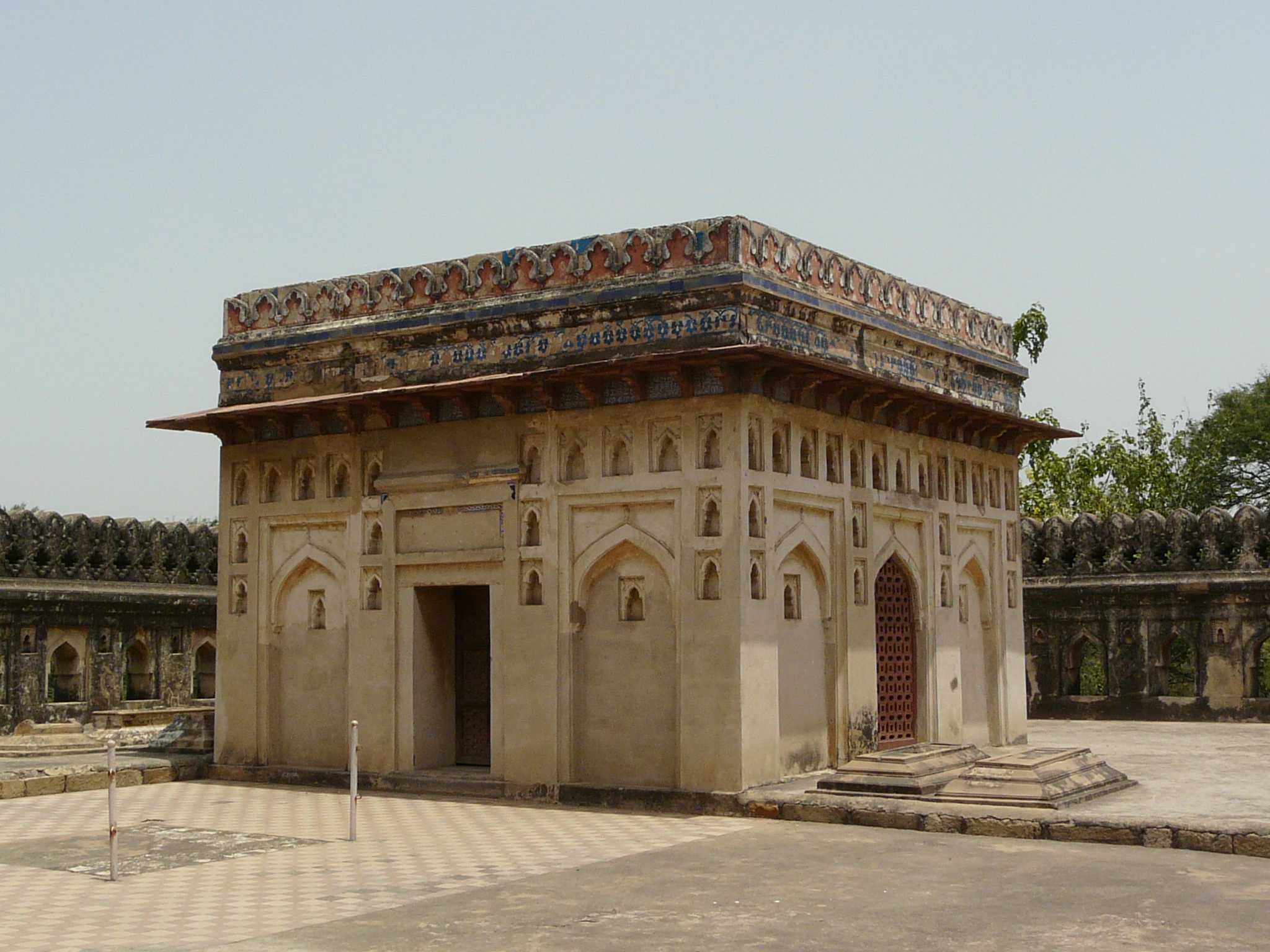 Jamali Kamali tomb, Mehrauli Archeological Park, Delhi. The enclosed tomb of Jamail Kamali.